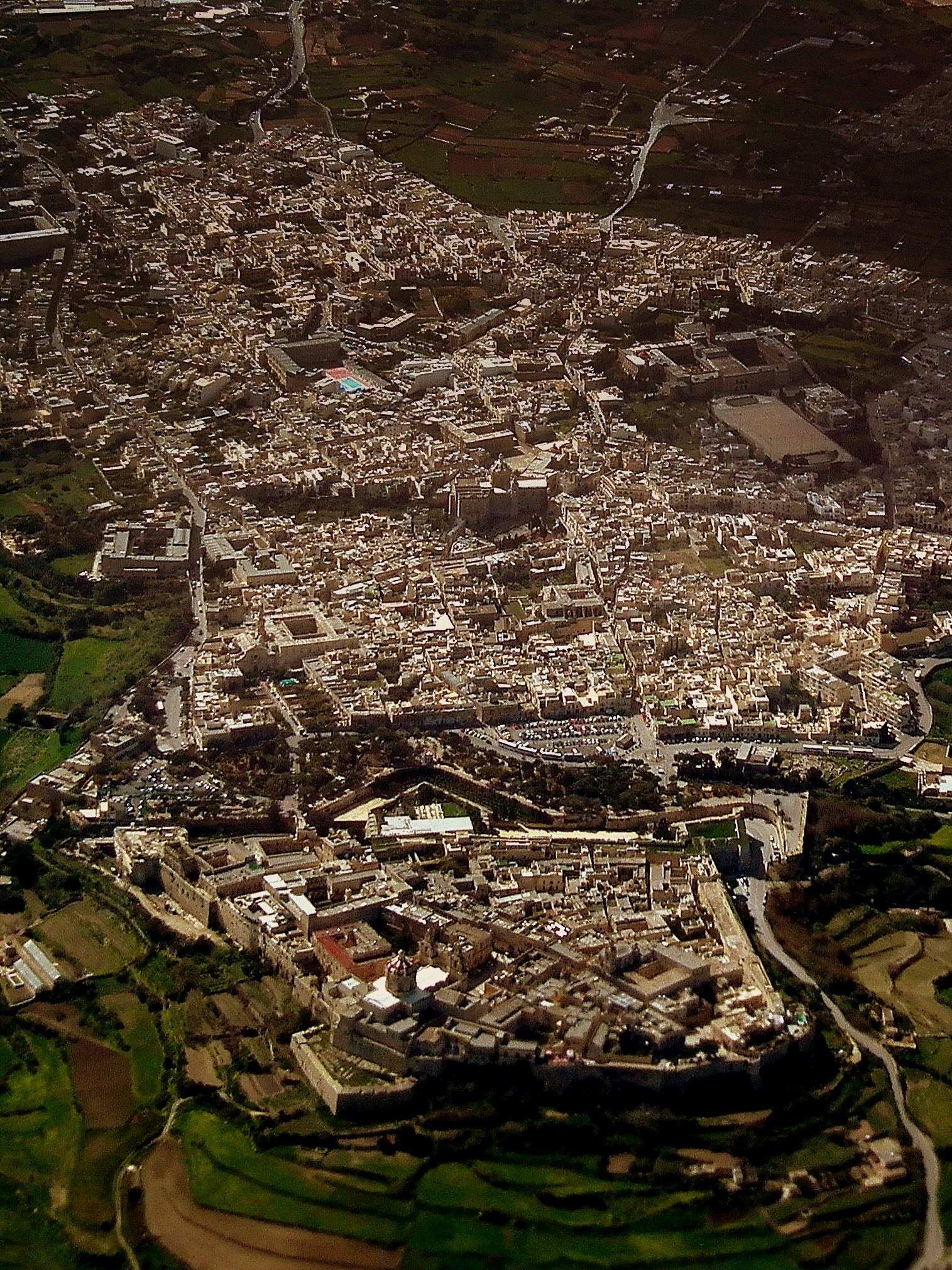 THE ANCIENT CITY OF MDINA MALTA FROM EZY2796 GEZDK A319 MALTA TO MALPENSA MARCH 2011